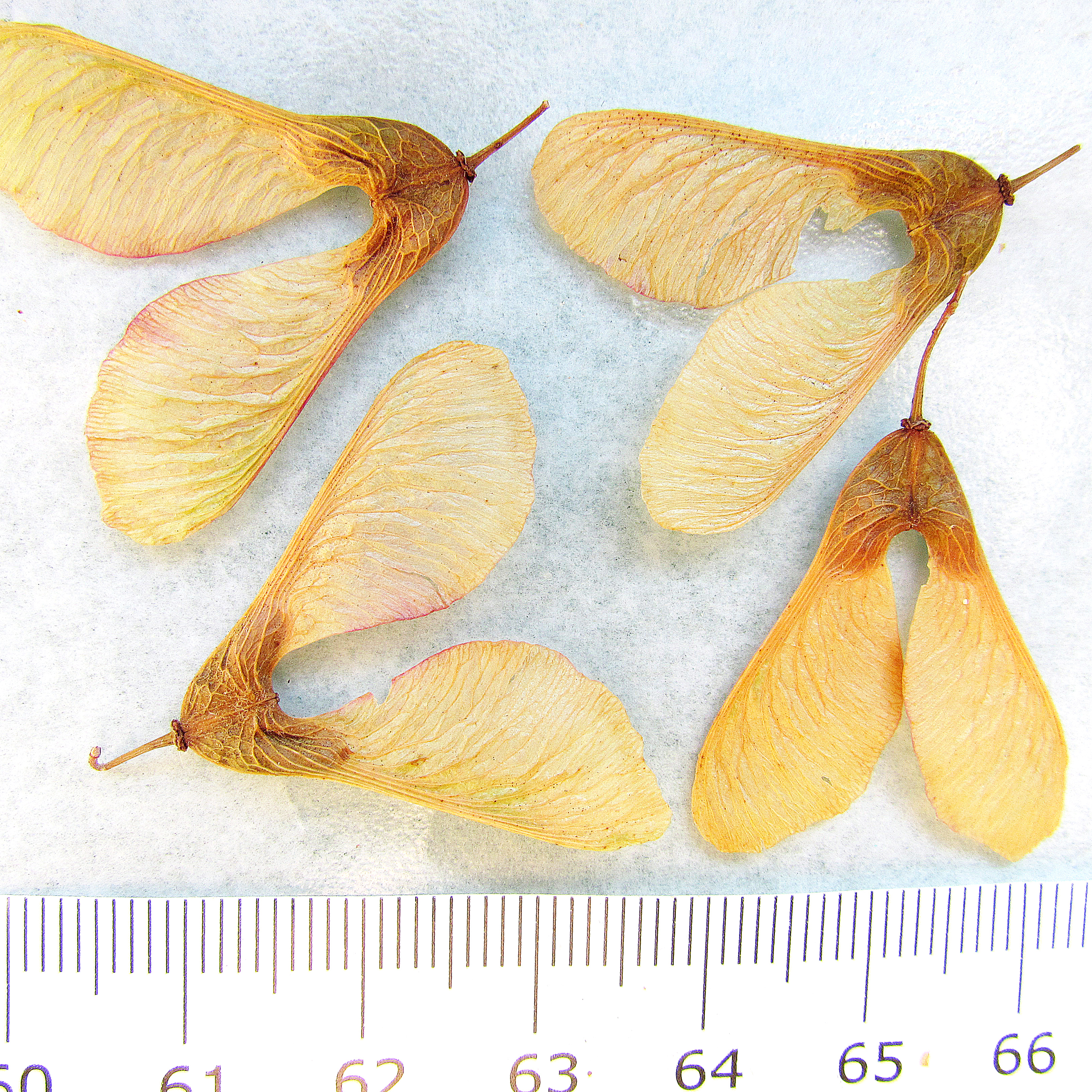 Acer tataricum subsp. semenovii samaras